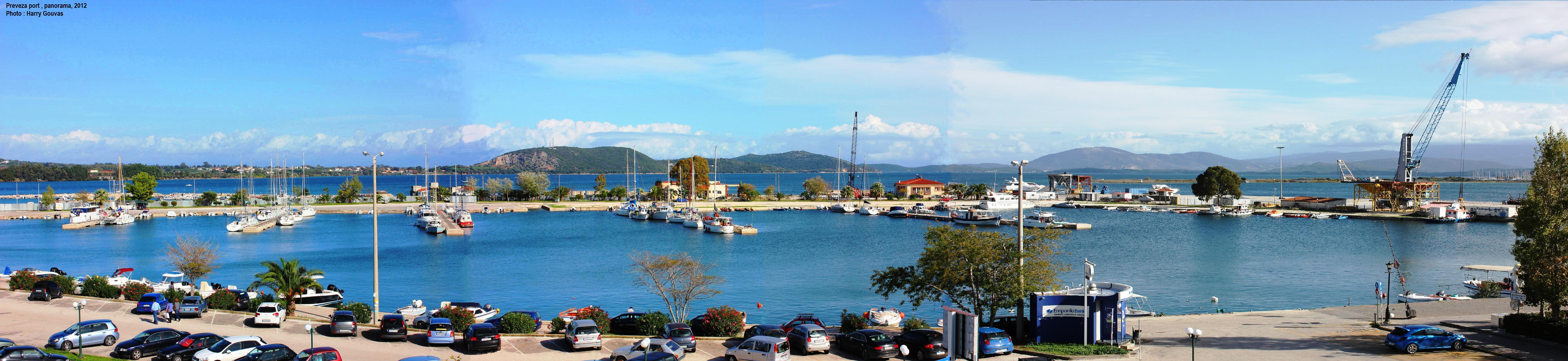 Preveza Port Panorama